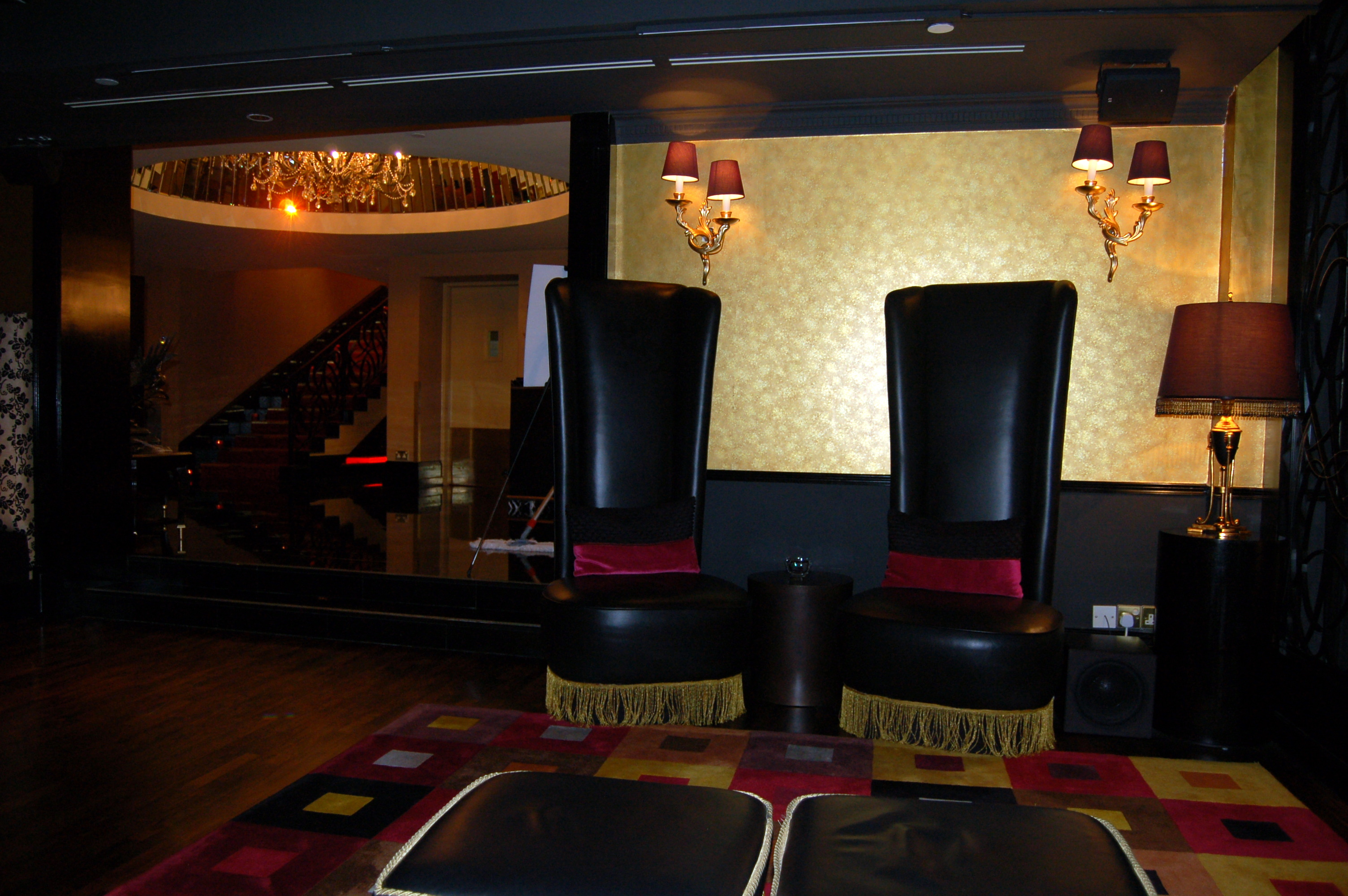 The first photo taken with our new camera...